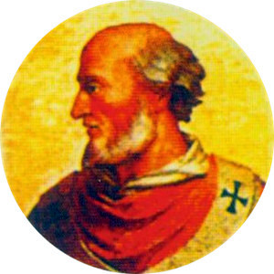 Portait of Pope Victor II in the Basilica of Saint Paul Outside the Walls, Rome